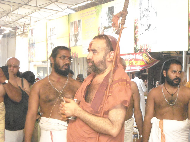 vijayendra saraswathi